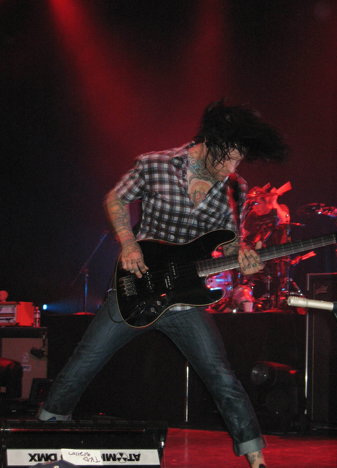 Jeph Howard, bassist of the American rock band The Used - concert at San Francisco